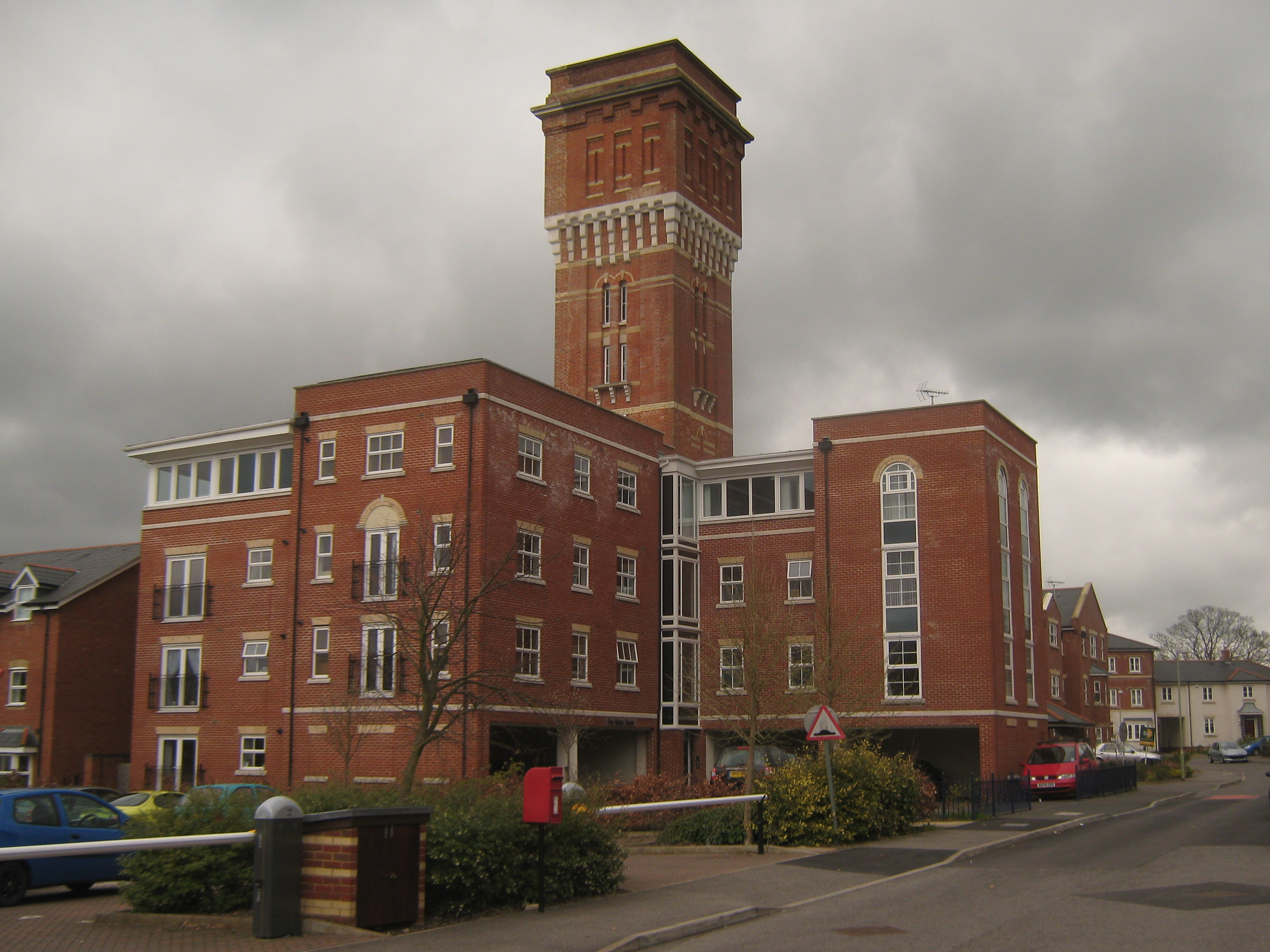 St. Augstines Hospital This large building was part of the large complex of buildings of St. Augustine's Hospital (1948-1992). The rest of the hospital has been converted into flats and apartments, also a large housing estate surrounds the main buildings. for more history on the hospital.